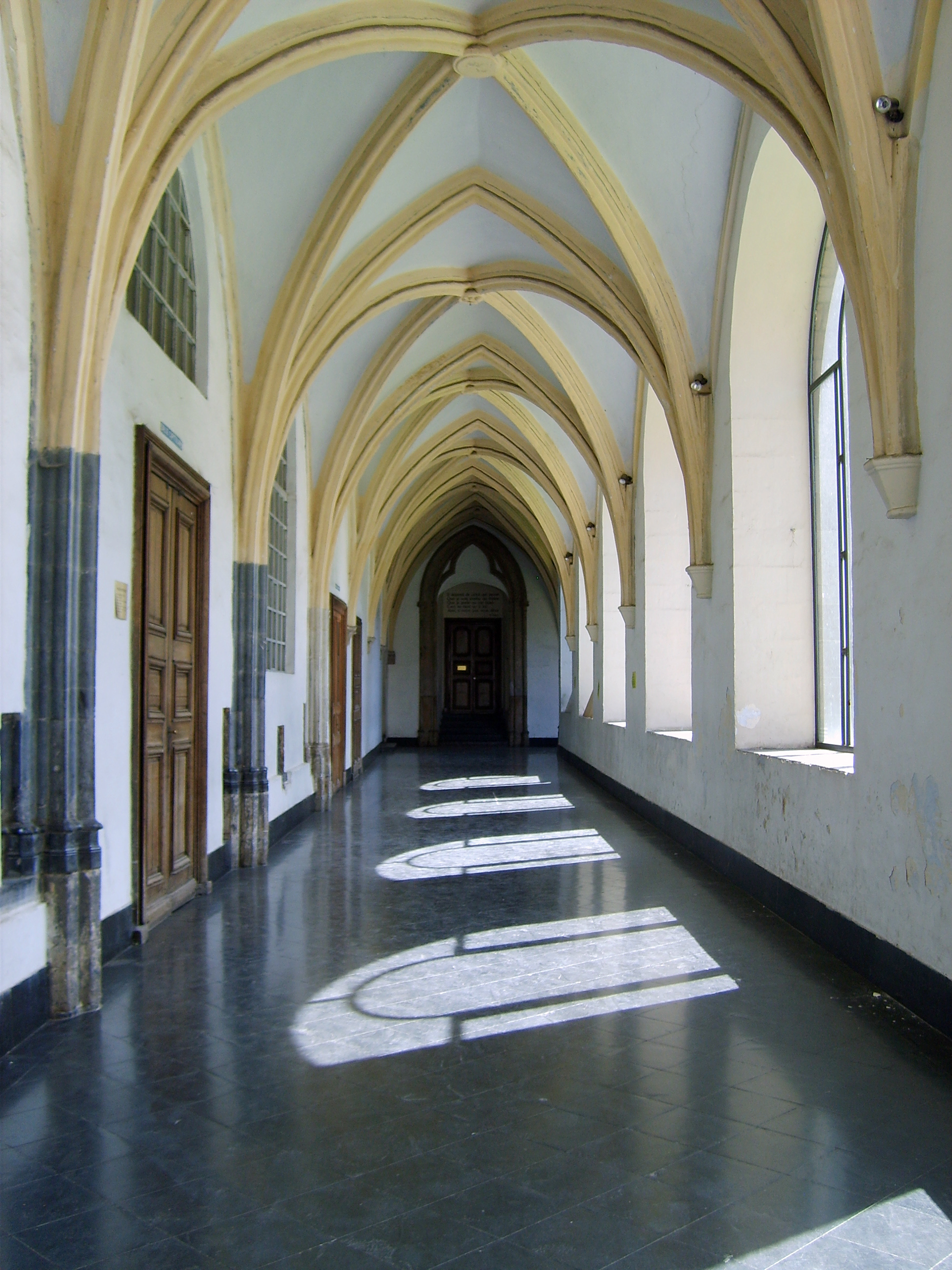 Bonne-Espérance Abbey, Vellereille-les-Brayeux (Belgium), the gothic cloister (13th century)